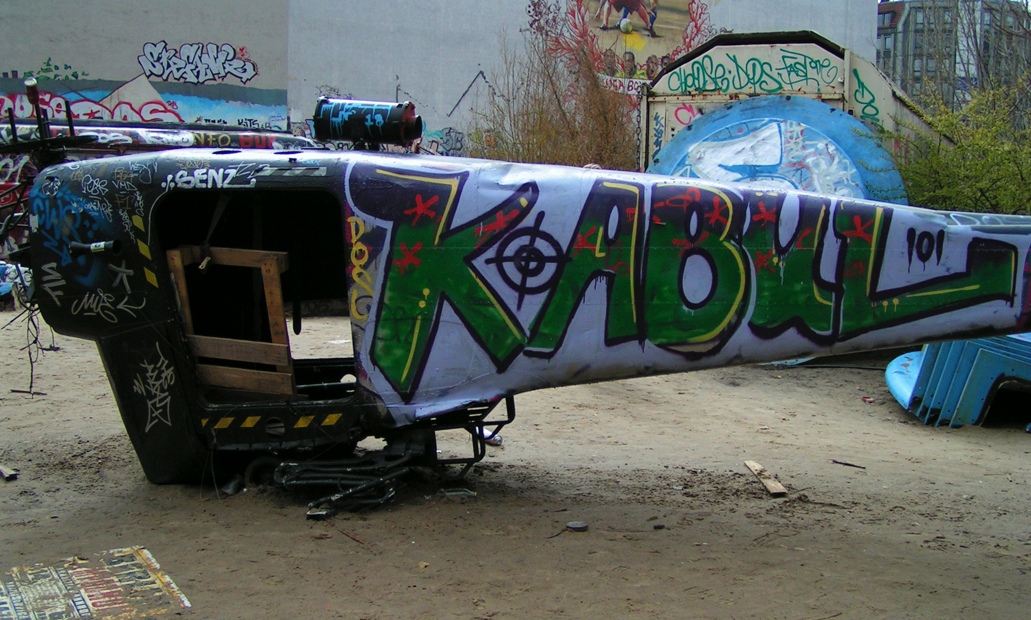 helicopter part with graffiti